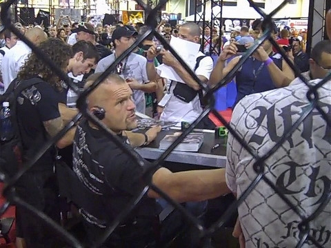 Chuck "The Iceman" Liddell with fans - UFC 100 Fan Expo - Mandalay Bay Casino, Las Vegas